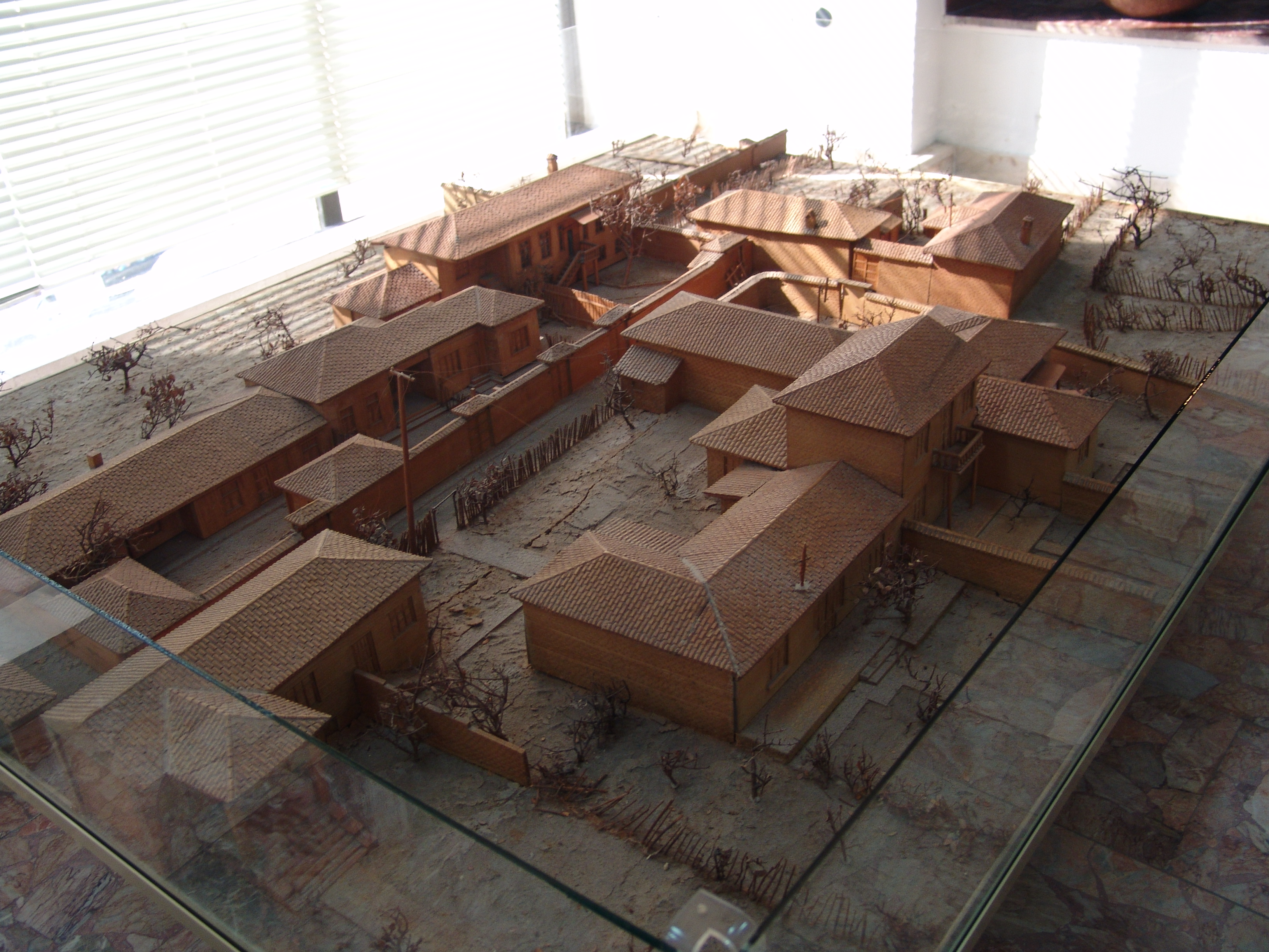 A pattern of Albanian houses in the past